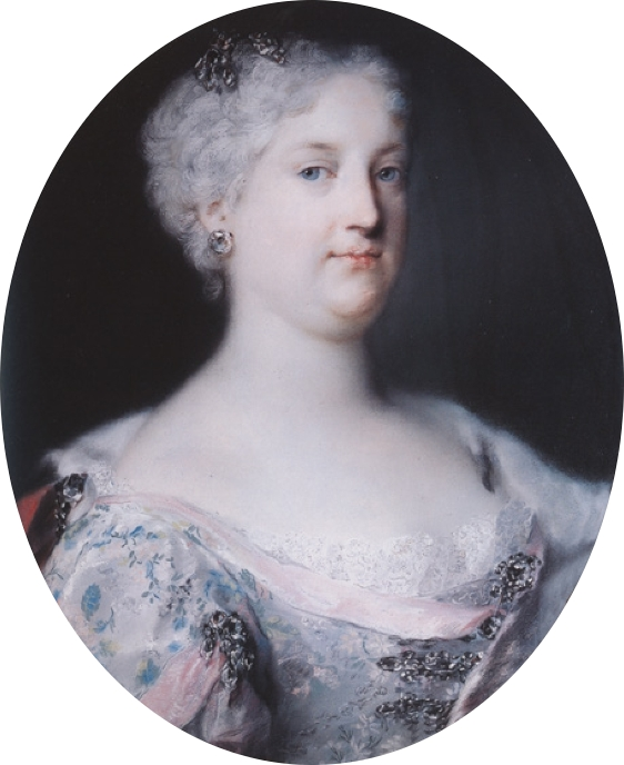 Elisabeth Christine, Princess of Brunswick-Wolfenbüttel, spouse of Holy Roman Emperor Charles VI, mother of Empress Maria Theresia of Austria.